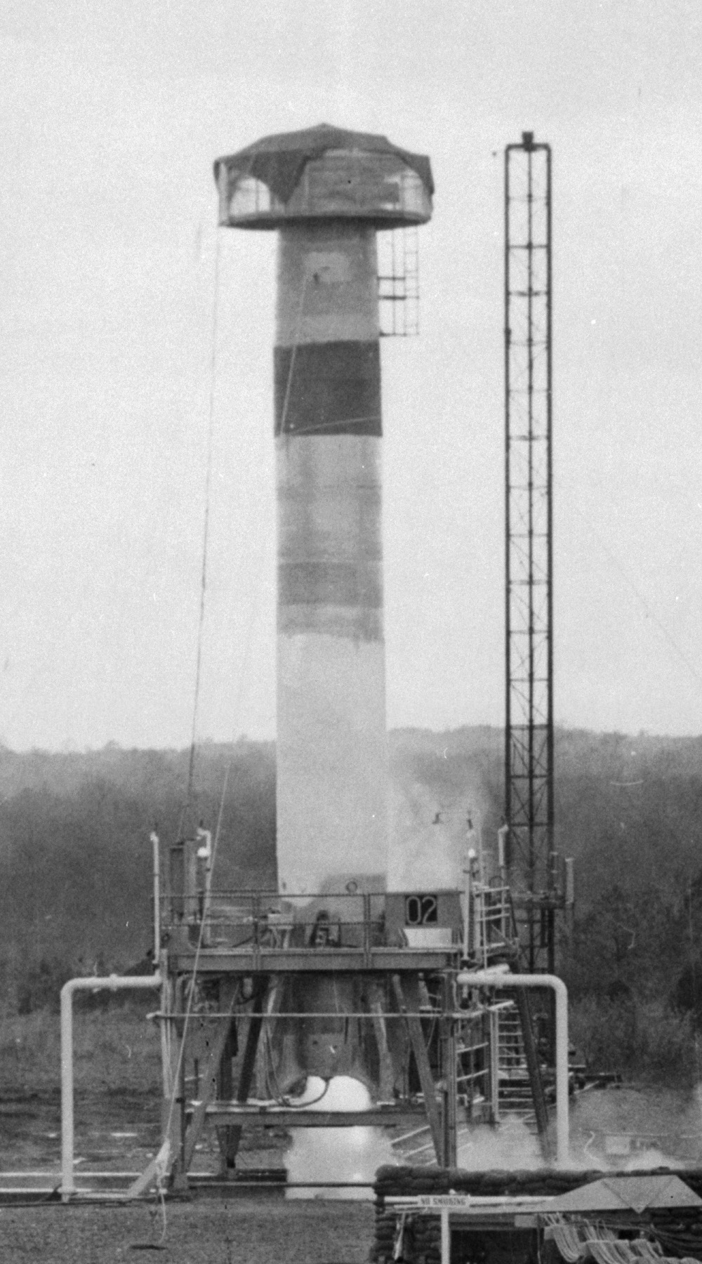 Detail from the original photo. This photograph is from the Historic American Engineering Record Historic American Buildings Survey /Historic American Engineering Record/Historic American Landscapes Survey (Library of Congress); it show the second test fire of the first Redstone missile. Library of Congress, HAER ALA,45-HUVI.V,7A- This image is available from the United States Library of Congress's Prints and Photographs division under the digital ID hhh.al1184.This tag does not indicate the copyright status of the attached work. A normal copyright tag is still required. See Commons:Licensing for more information. Photo Caption: 37. HISTORIC GENERAL VIEW LOOKING WEST OF TEST STAND AND ROCKET DURING TEST FIRING NUMBER 2. NOTE THE FLAME BEING EMITTED FROM THE BOTTOM OF THE ROCKET. HAER ALA,45-HUVI.V,7A-37 Title of Historic Landmark: Marshall Space Flight Center, Redstone Rocket (Missile) Test Stand, Dodd Road, Huntsville vicinity, Madison, AL Other Titles: Interim Test Stand Building No. 4665 Redstone Arsenal Call Number: HAER ALA,45-HUVI.V,7A- Survey number HAER AL-129-A